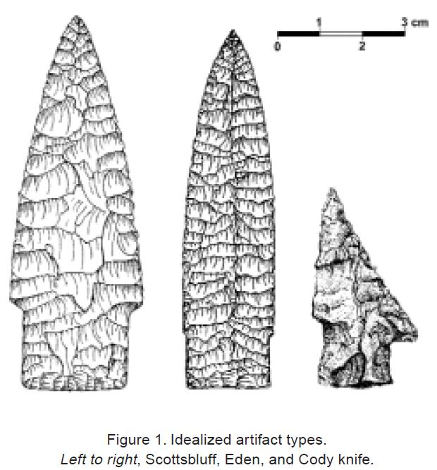 Three common tools of the Cody Complex. From Record of Early People on Yellowstone Lake: Cody Complex Occupation at Osprey Beach Yellowstone Scient publication